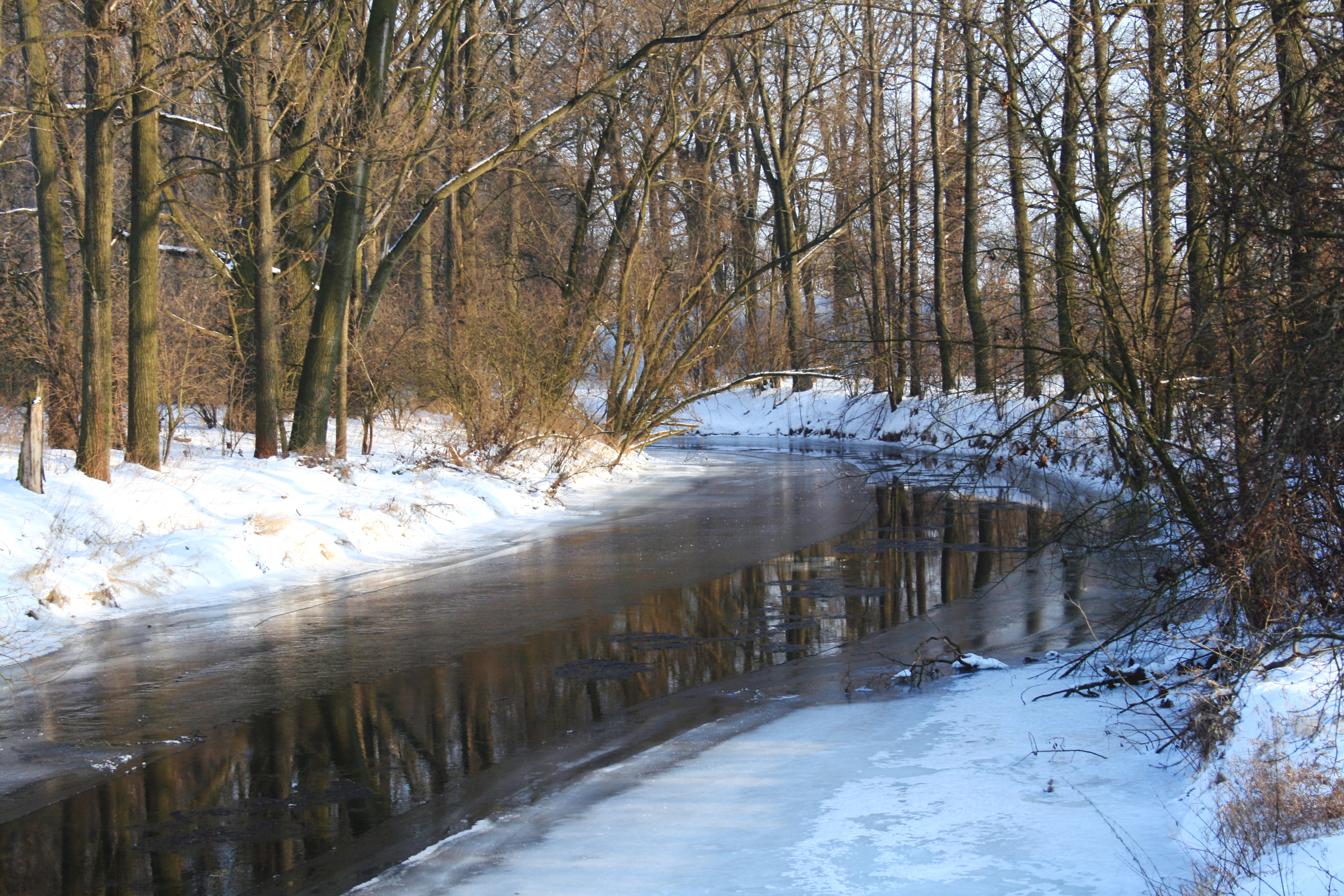 River Úpa in winter near of Jaroměř, east Bohemia, Czech republic